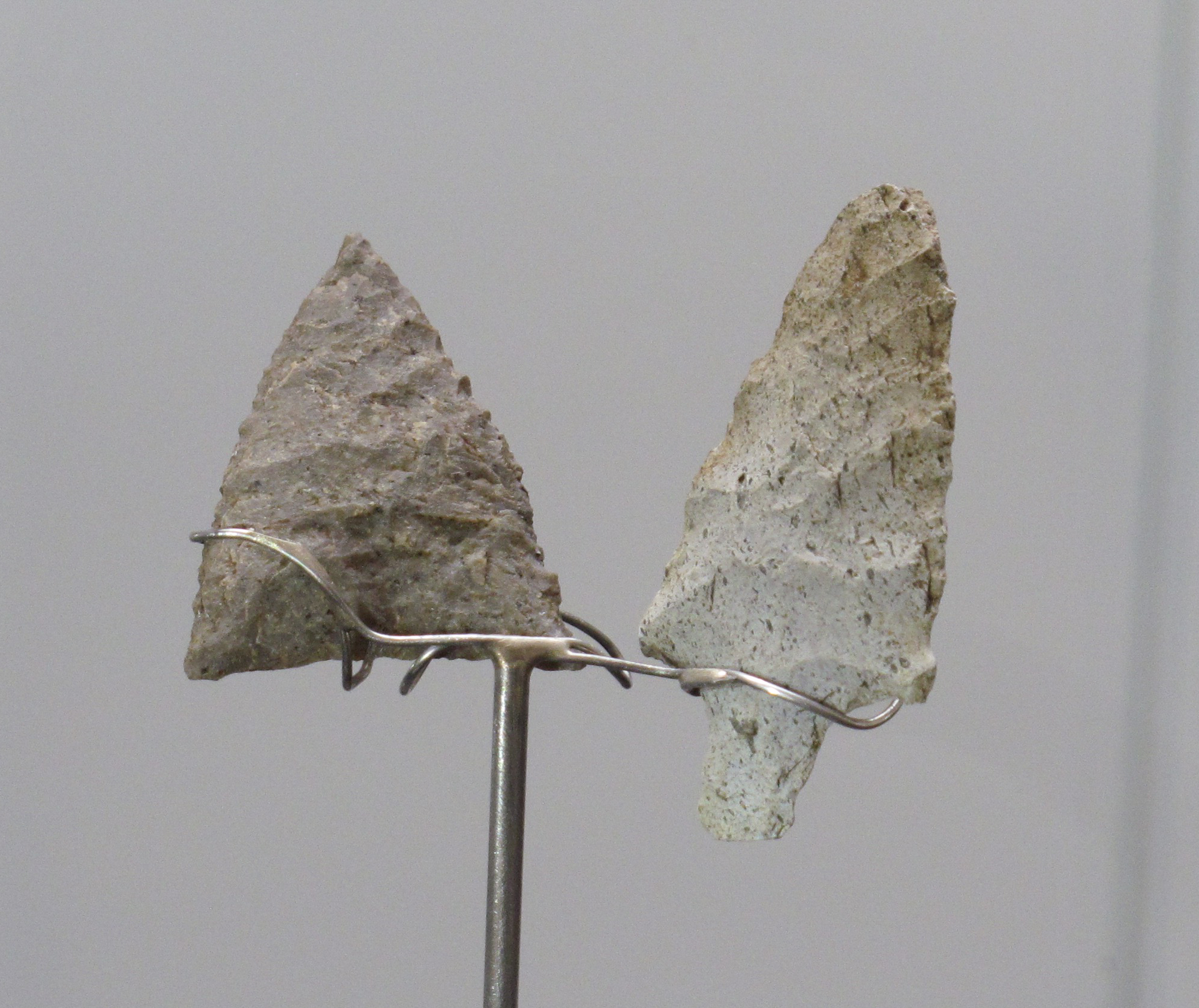 Mesolithic arrowheads. Gosan-ri. Jeju National Museum collection. Korea. Exhibition: : La Corée des origines, Musée de l'Homme, Paris, 2016. Carving probably obtained by pressure.